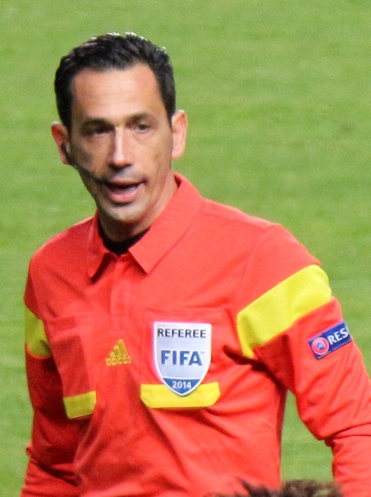 Chelsea 2 PSG 0